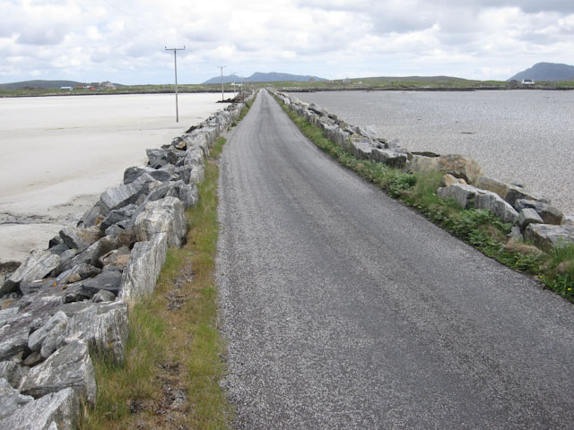 Causeway to North Uist Linking Baleshare to the 'mainland'.